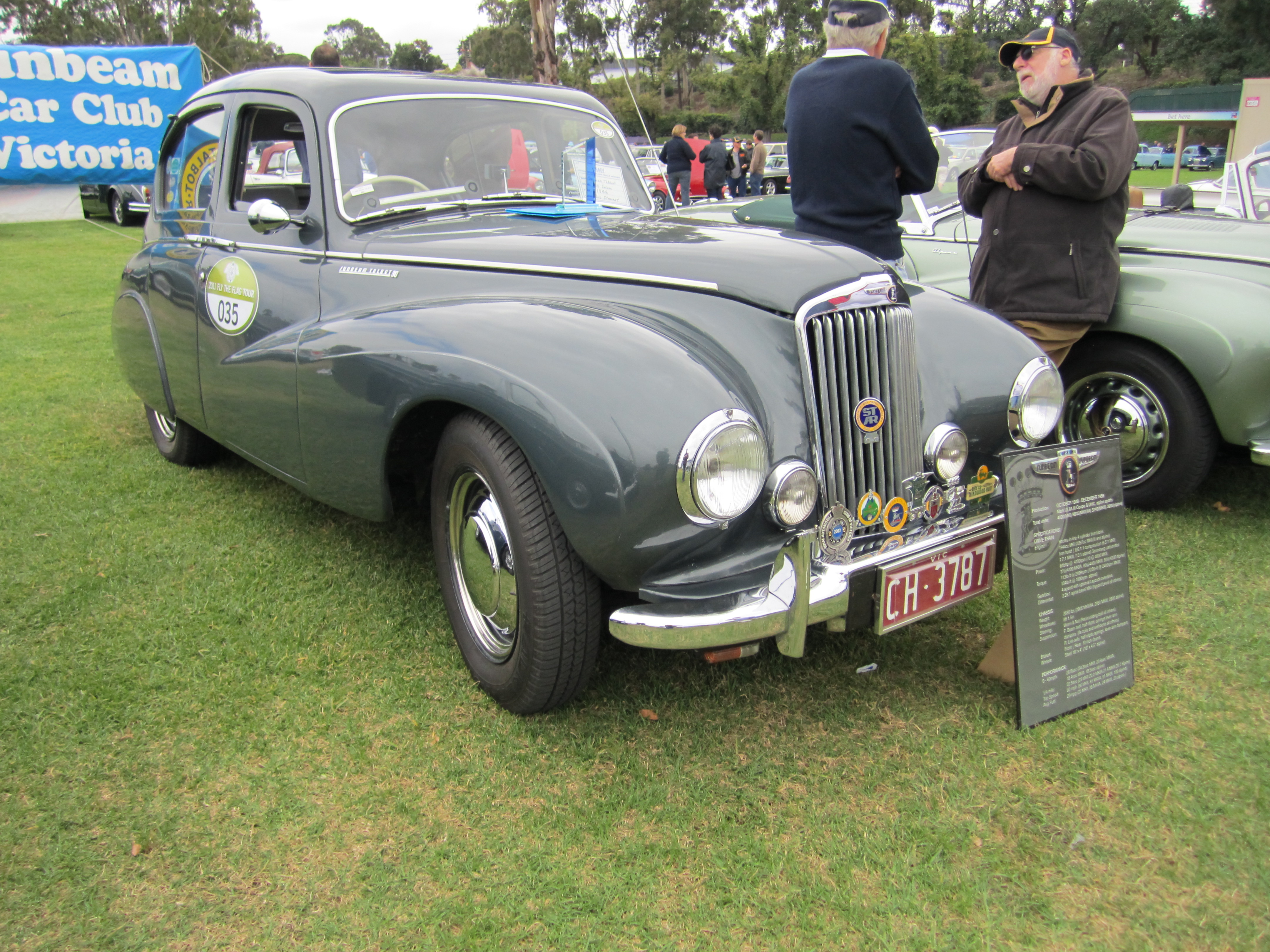 Sunbeam-Talbot 80 The Mk I built from 1948-50. Available in 2 door convertible or 4 door saloon. Engine; 1185 cc 4 cyl